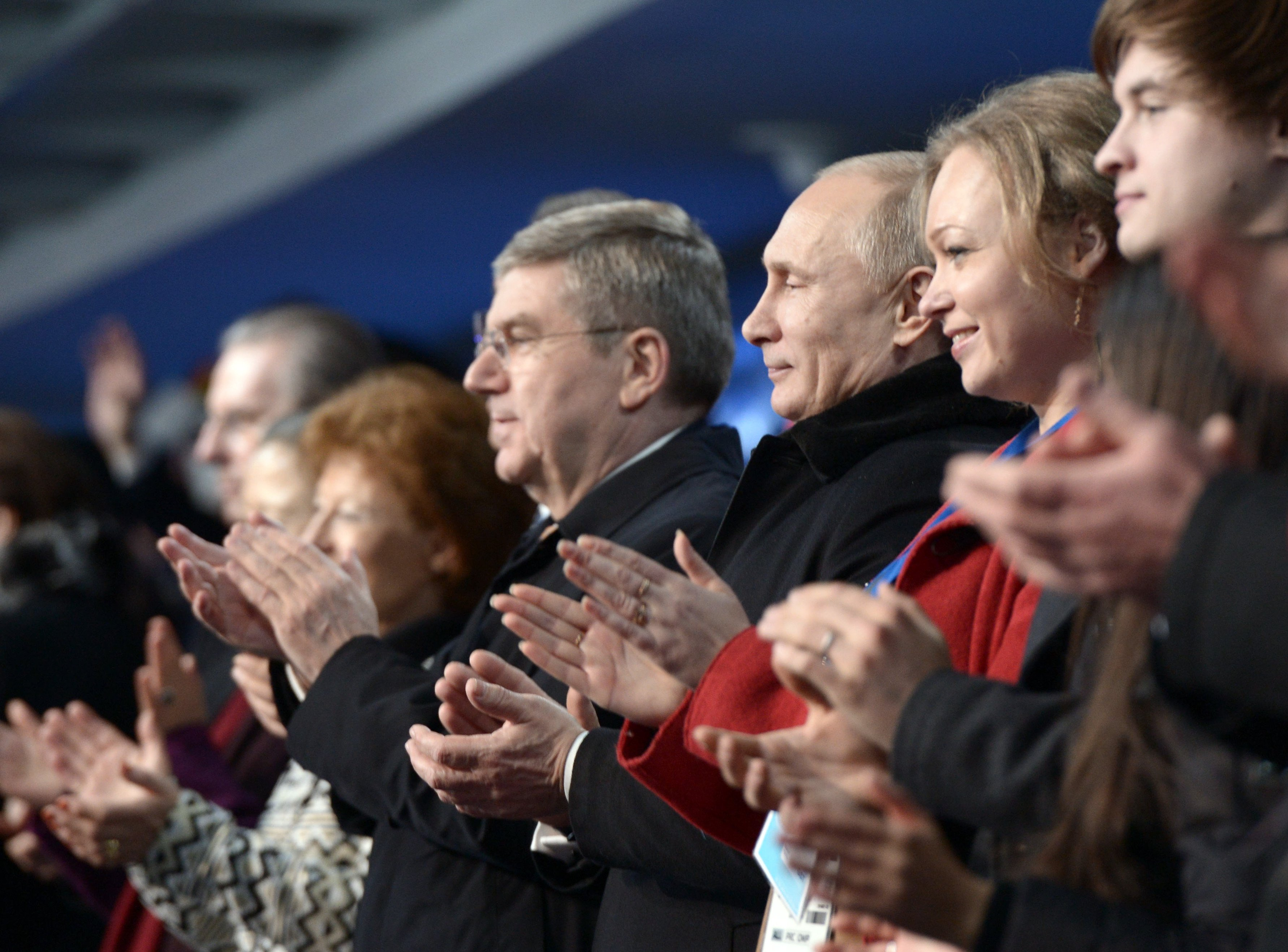 2014 Winter Olympics opening ceremony (2014-02-07)